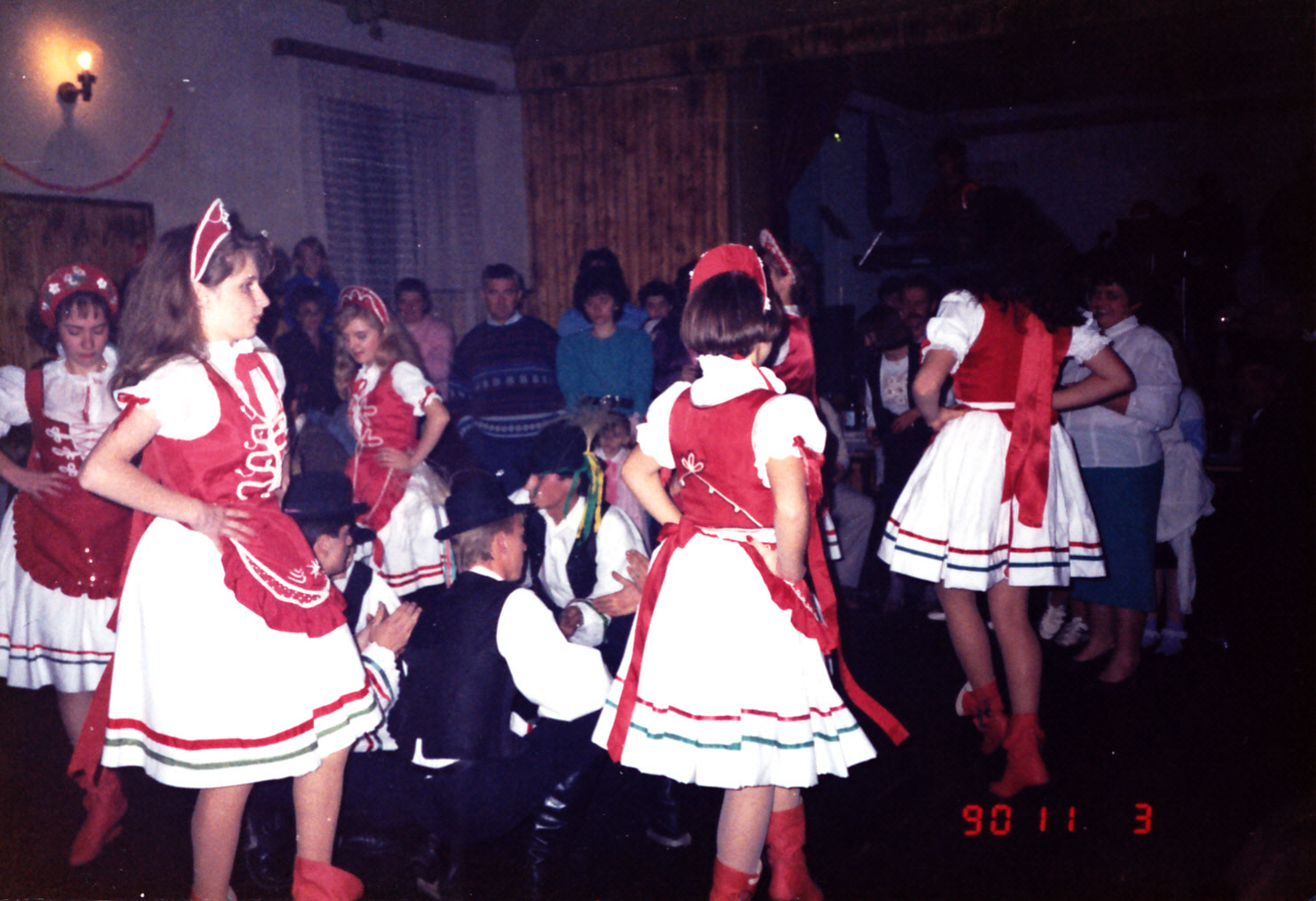 Šušara1_Kud_90-tih.